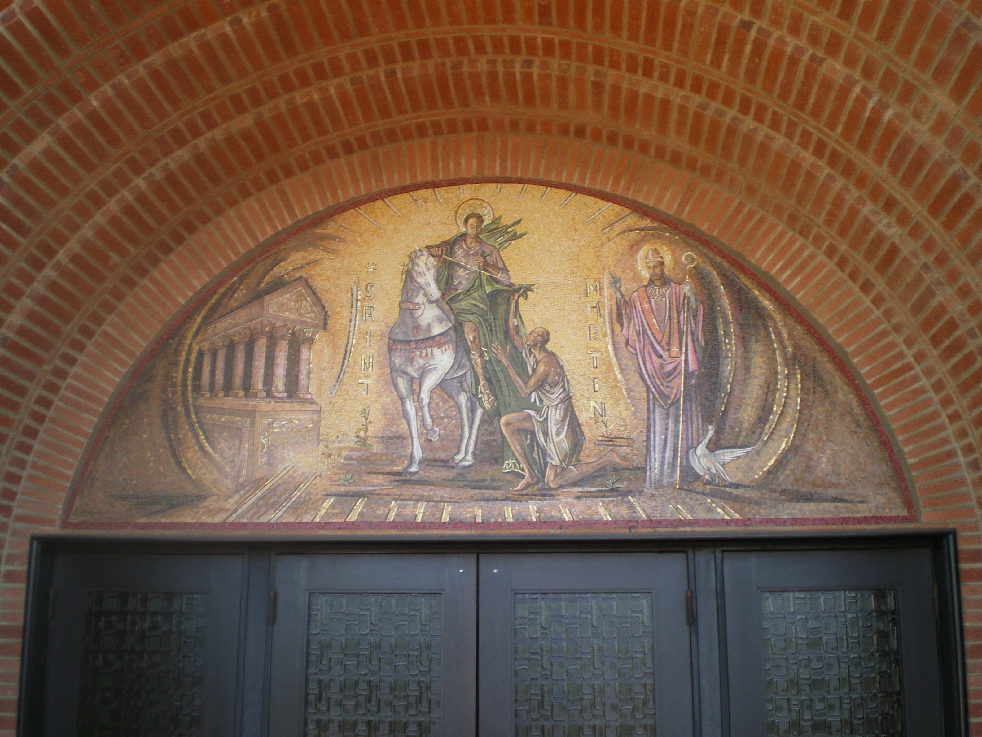 Front entrance of St. Martin of Tours Catholic Church, Brentwood, Los Angeles, California